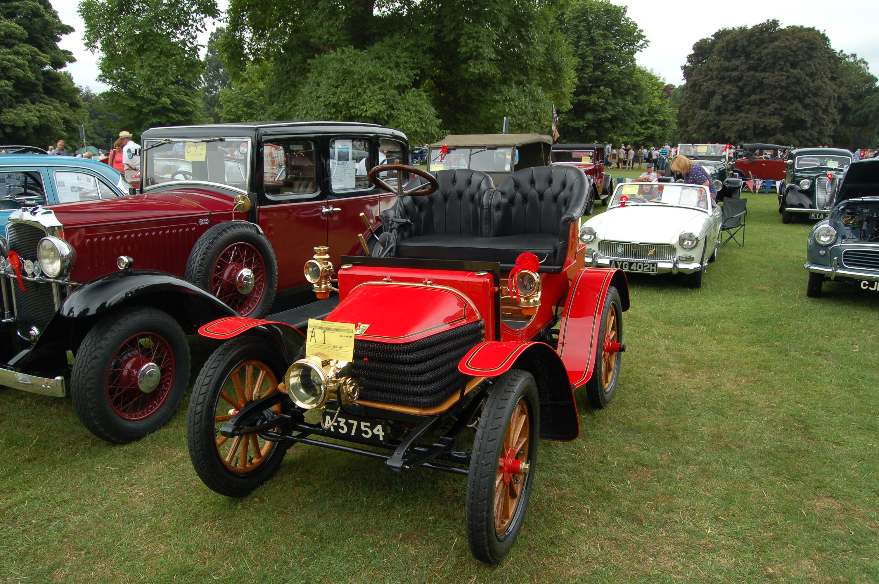 Wolseley 6hp single-cylinder open 2-seater 1904(DVLA) manufactured 1904, 1297ccNewby Hall Historic Car Rally 2013